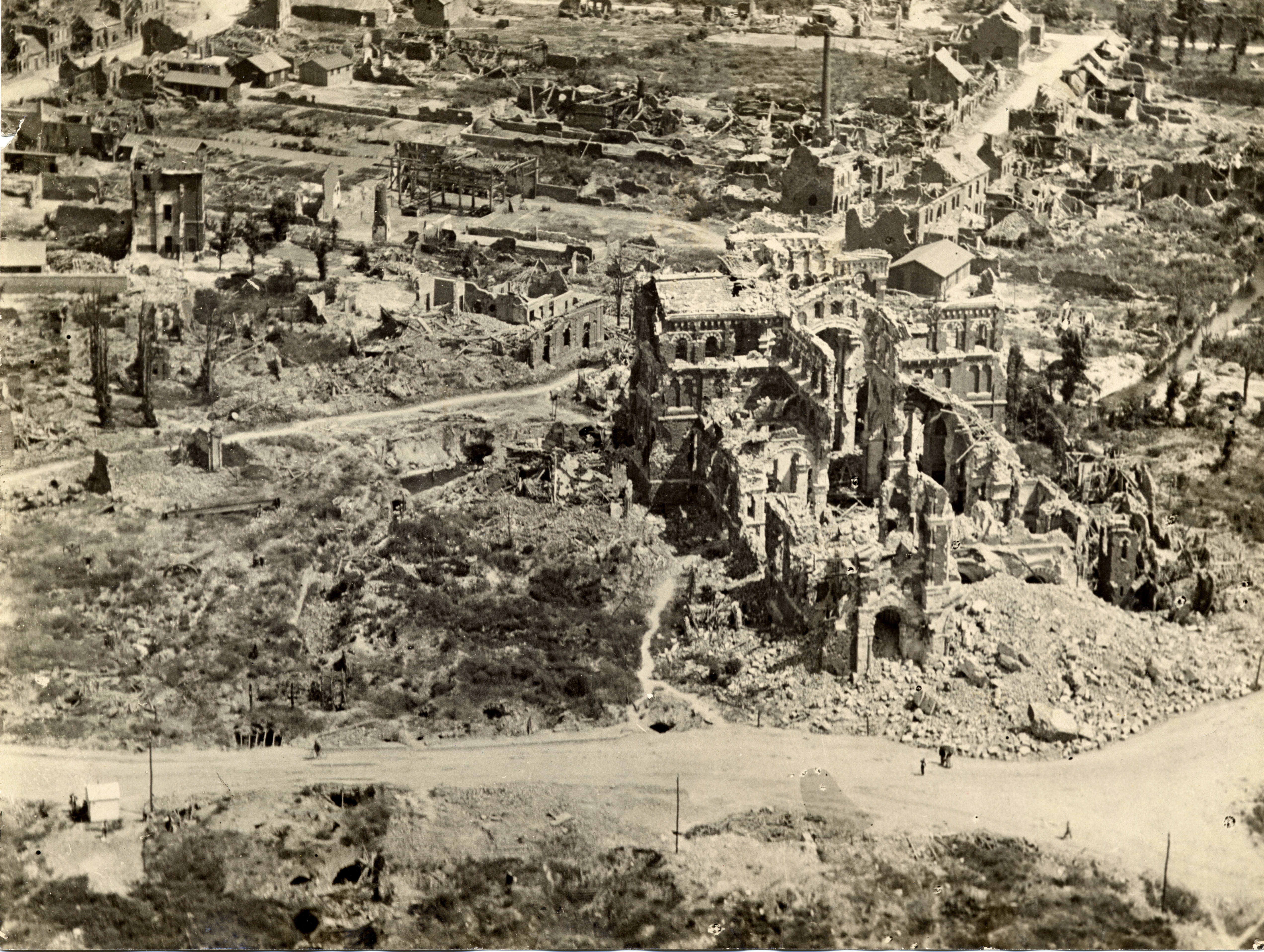 Item is a photograph from an album of World War One-related photographs in the William Okell Holden Dodds fonds. Brigadier General Dodds joined the Canadian Expeditionary Force in 1914 and was commanding officer of the 5th Canadian Division Artillery and served in France from 1917-1918.